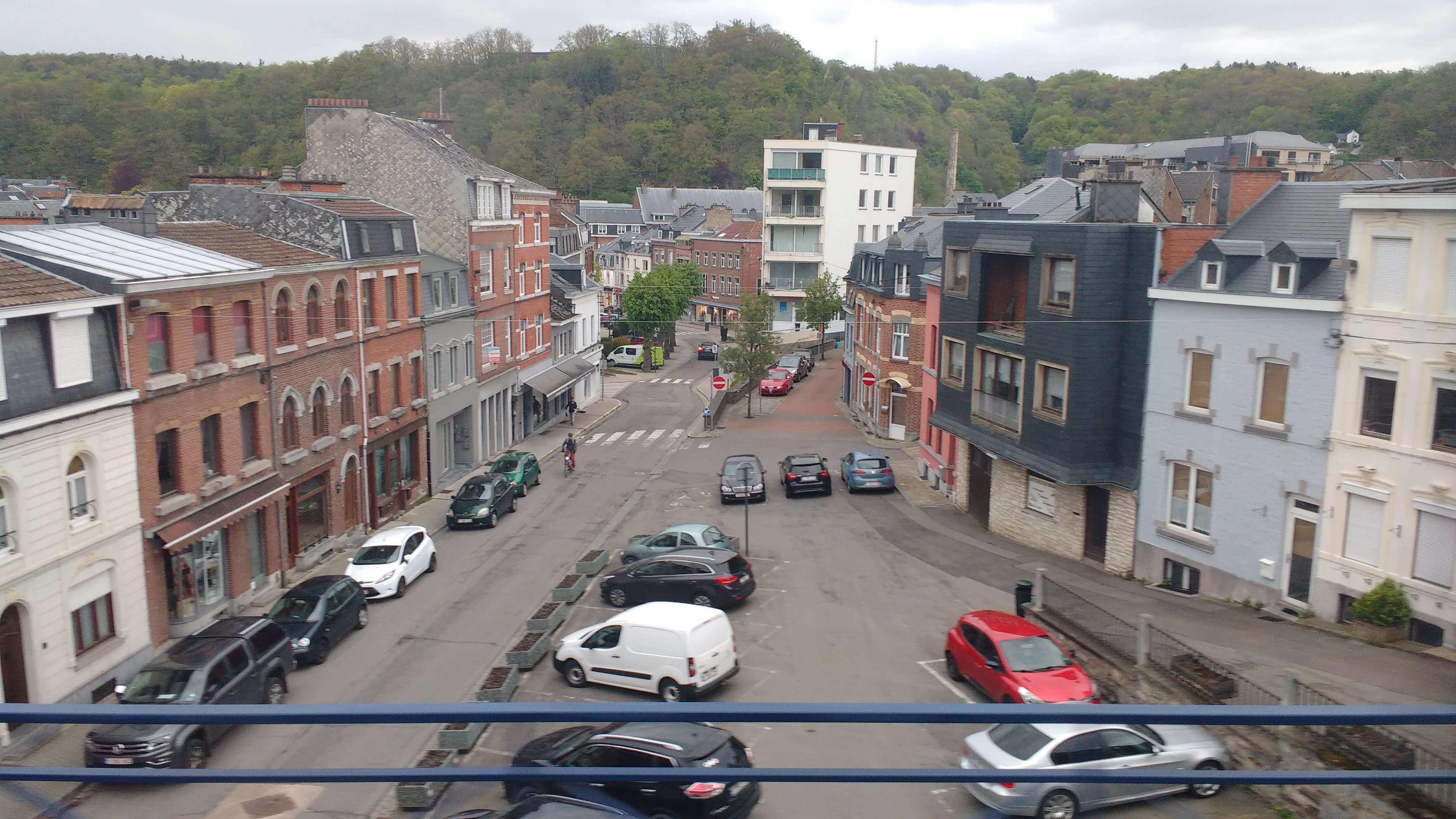 Place de la providence SPA